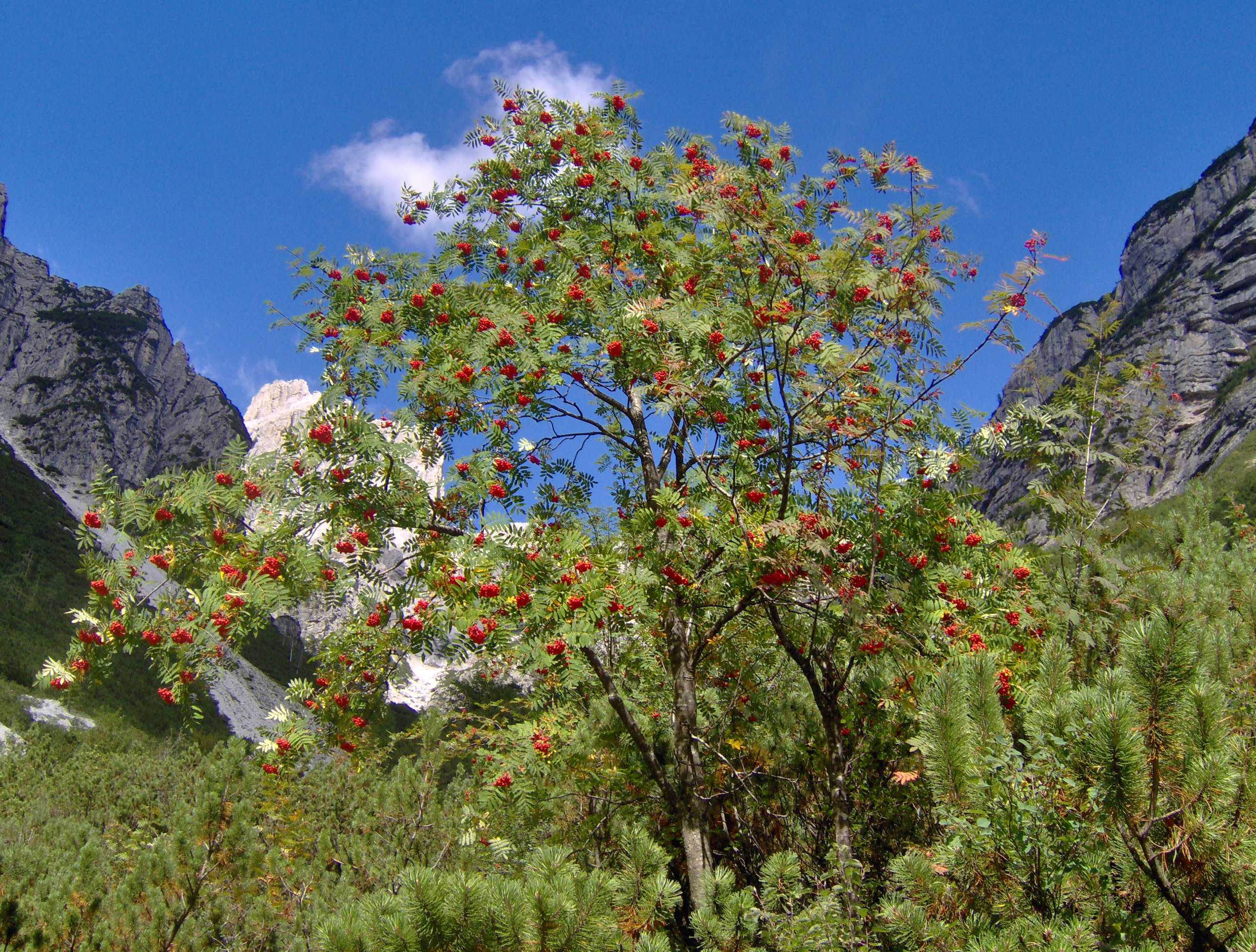 A Rowan tree, with Mountain Pine shrubs.